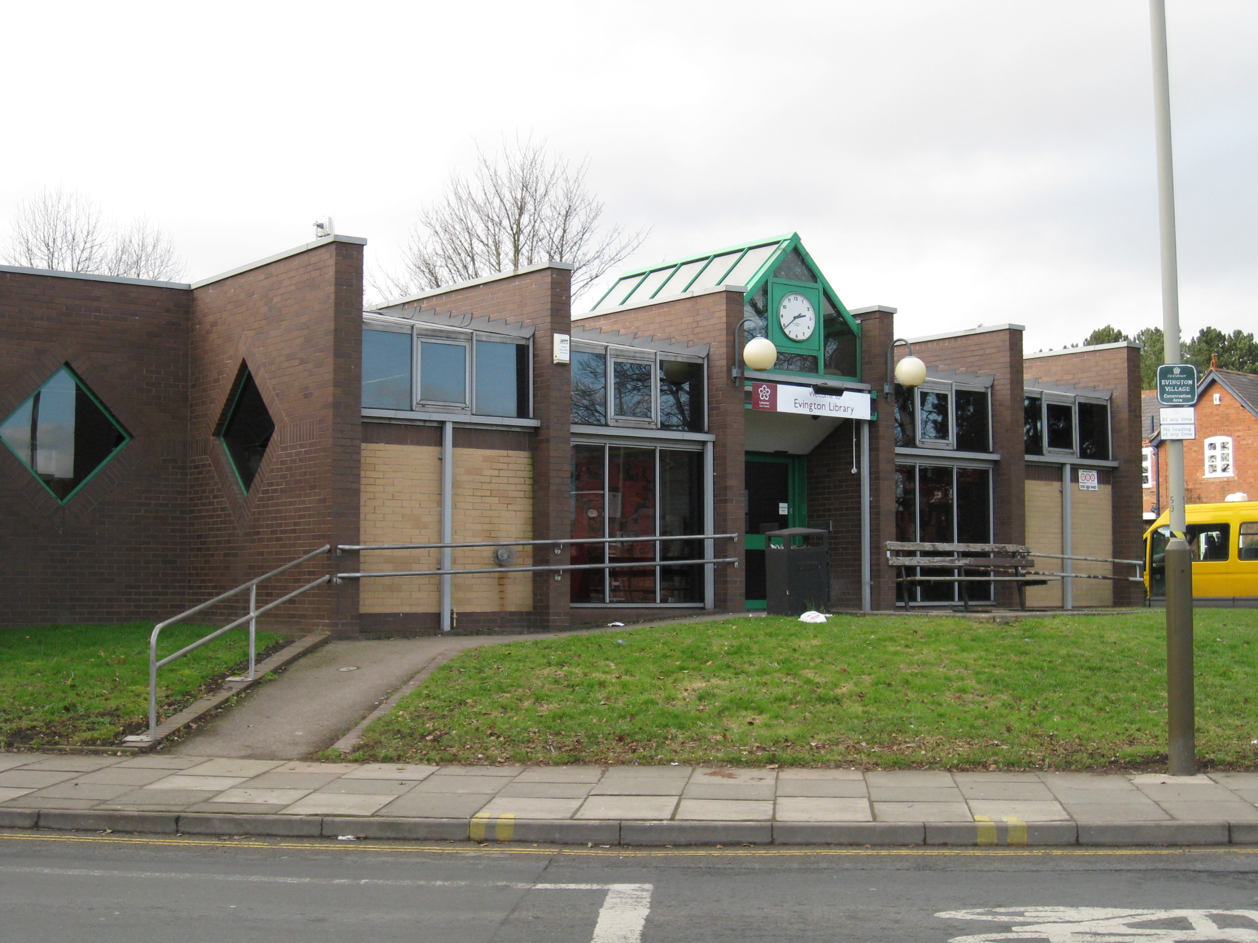 Public library, Evington Lane, Evington, Leicester LE5 6DH